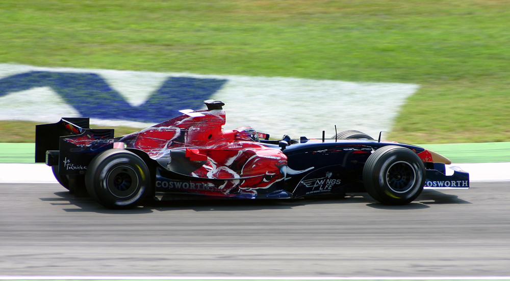 Scott Speed in racecar of Scuderia Toro Rosso (Italian for Team Red Bull) at the 2006 German Grand Prix